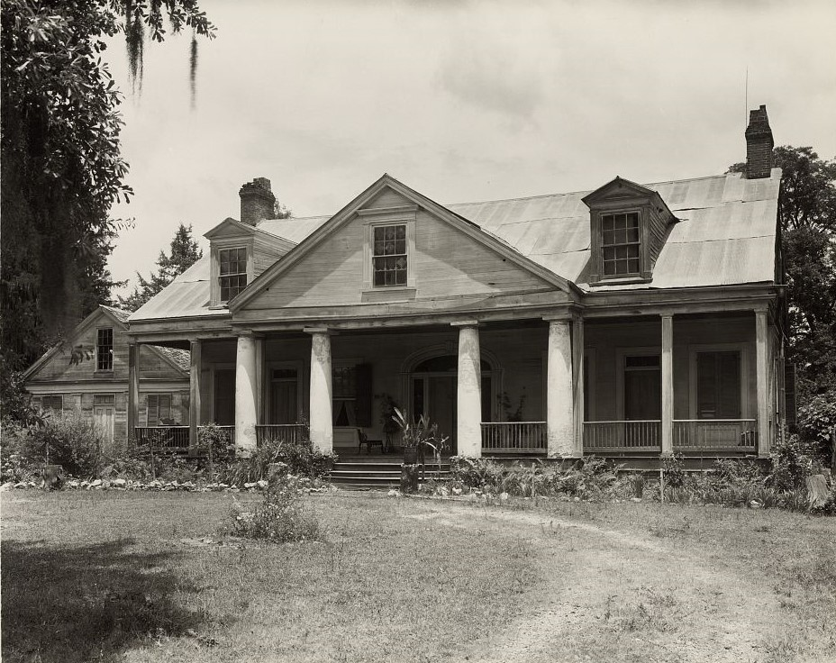 Title Windy Hill Manor, Natchez vic., Adams County, Mississippi Contributor Names Johnston, Frances Benjamin, 1864-1952, photographer Created / Published 1938. Subject Headings - United States--Mississippi--Adams County--Natchez vic. - Pediments. - Porches. - Dormers. - Houses. - Mississippi--Adams County--Natchez Vic Format Headings Photographic prints. Notes - Title from photographer's inventory. - Built by Col. Benijah Osmun, a veteran of the Rev. For 120 years, has been home of the Stantons. One story frame, pitch roof. Rambling. - Corresponding Carnegie Survey of the Architecture of the South neg. no. 1073. Library has no record of having this neg. - Related names: Miss Elizabeth Brandon Stanton. - Forms part of: Carnegie Survey of the Architecture of the South (Library of Congress). Medium 1 photographic print. Call Number/Physical Location LOT 12634 [item] [P&P] Repository Library of Congress Prints and Photographs Division Washington, D.C. 20540 USA Digital Id ppmsca 23950 //hdl.loc.gov/loc.pnp/ppmsca.23950 Control Number csas200907164 Reproduction Number LC-DIG-ppmsca-23950 (digital file from print) Rights Advisory No known restrictions on publication. Online Format image Description 1 photographic print.